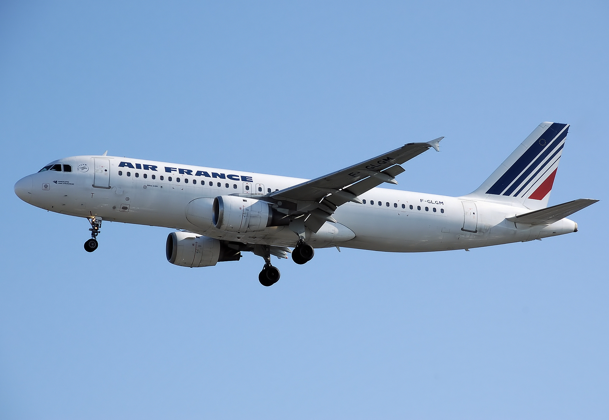 Air France Airbus A320-200 (F-GLGM) landing at London Heathrow Airport.